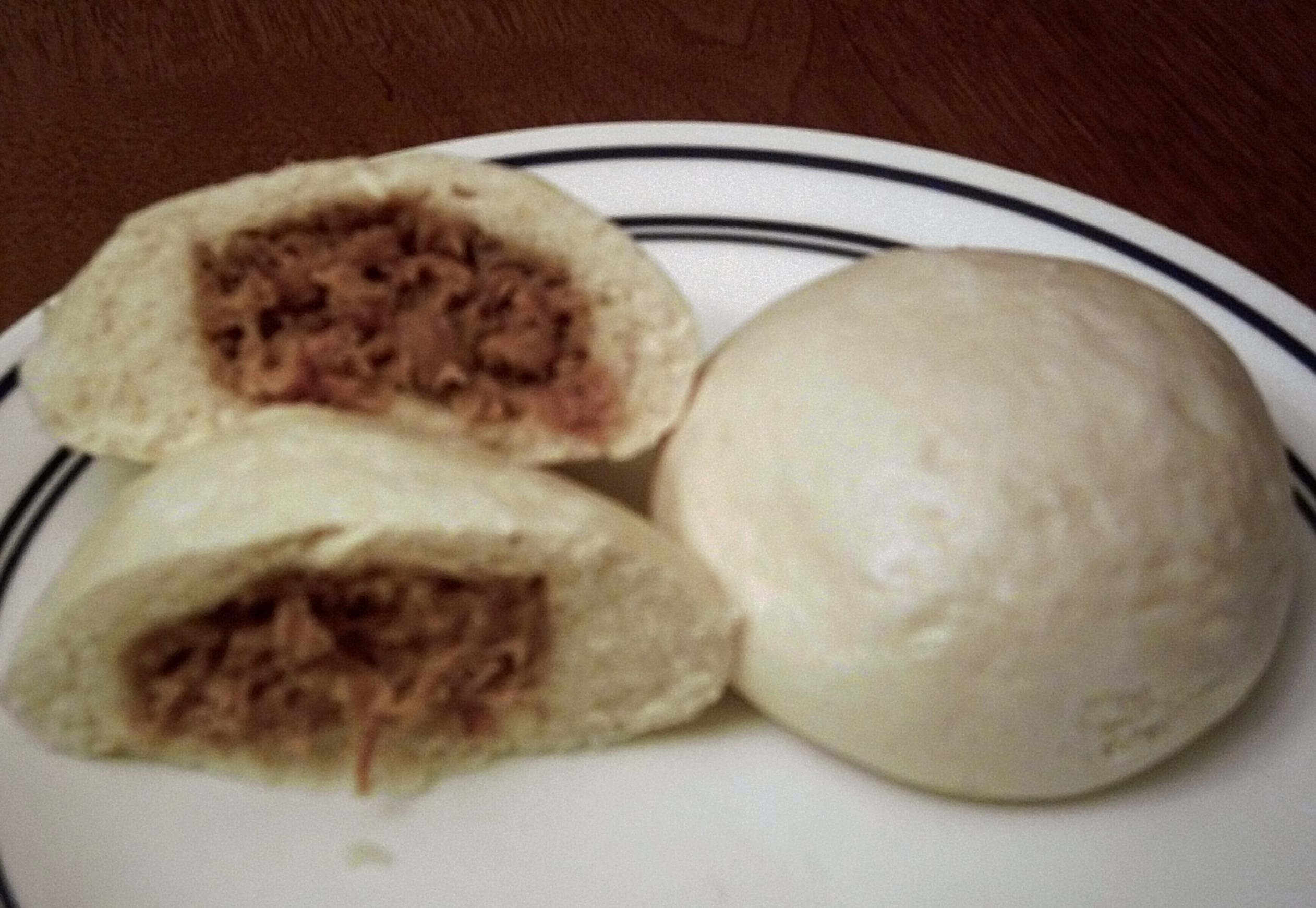 Chicken Siopao, with one cut open to show the filling.